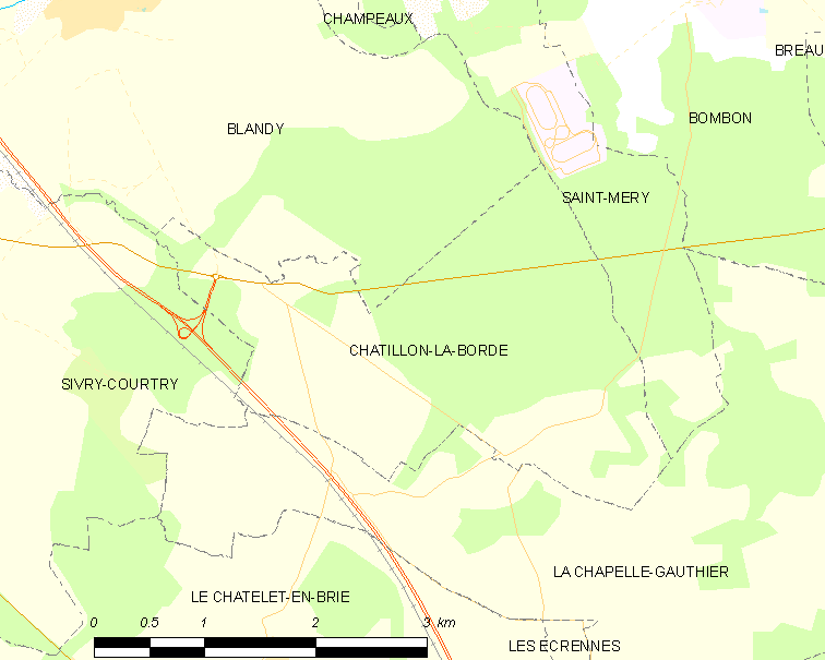 Map of French municipality Châtillon-la-Borde